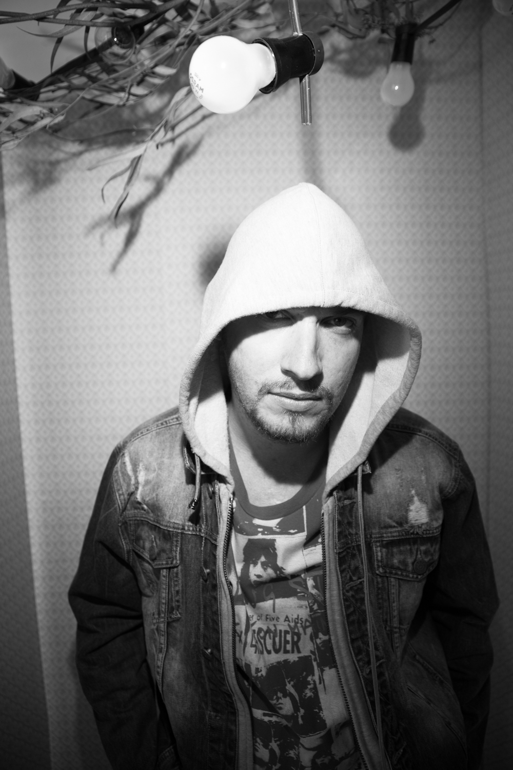 PR photo